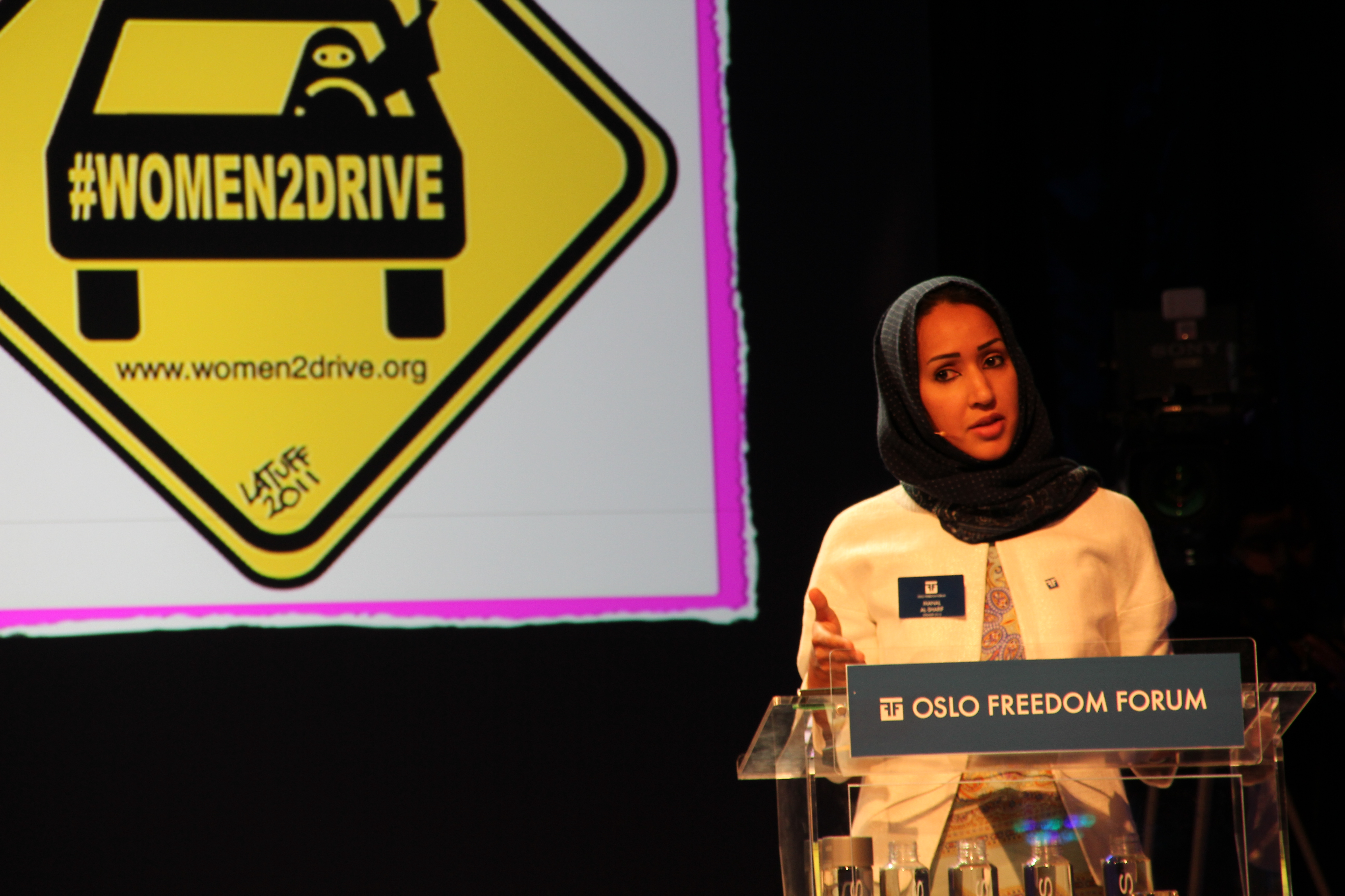 Manal al-Sharif